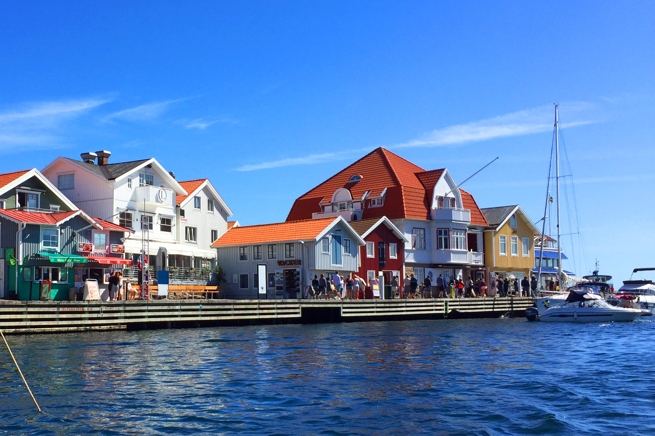 Smögen during summer. Photo: Johan Rosén